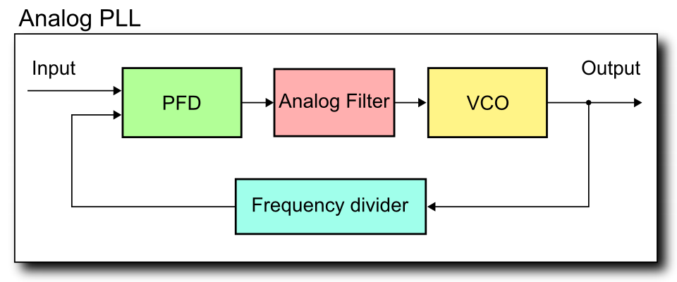 Analog PLL block diagram